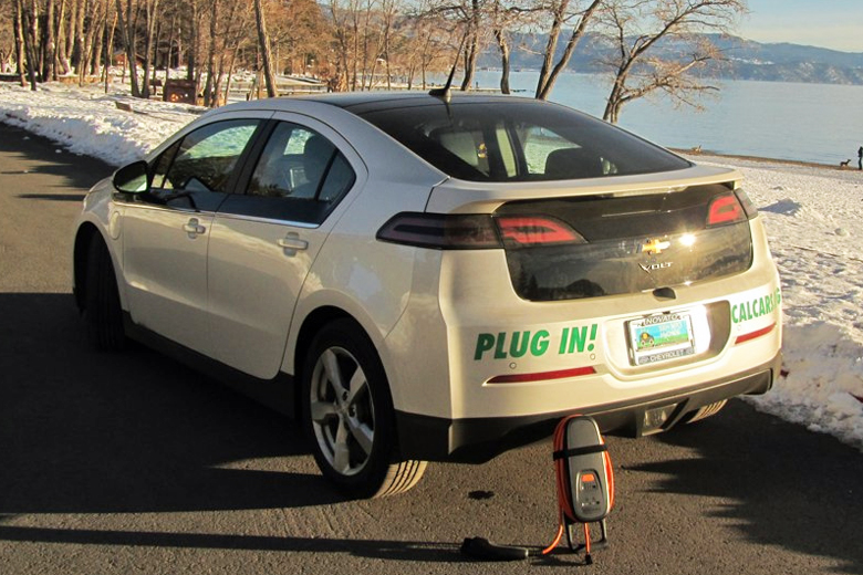 Felix Kramer's Chevy Volt (awaiting VOLT009 license plate) with portable cable set at Kings Beach, Lake Tahoe in January 2011